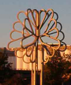 Tree of Five Seasons, Cedar Rapids, Iowa (photo by User:Hephaestos)